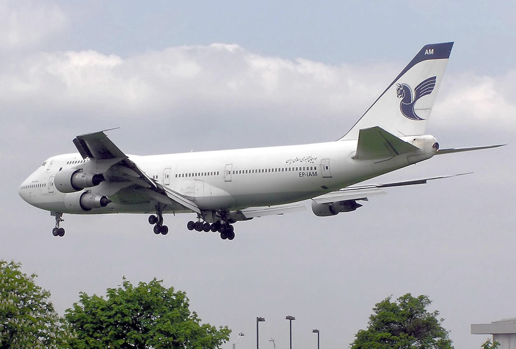 Iran Air Boeing 747-100 (EP-IAM) landing at London Heathrow Airport. Photographed by Adrian Pingstone in 2004 and released to the public domain.